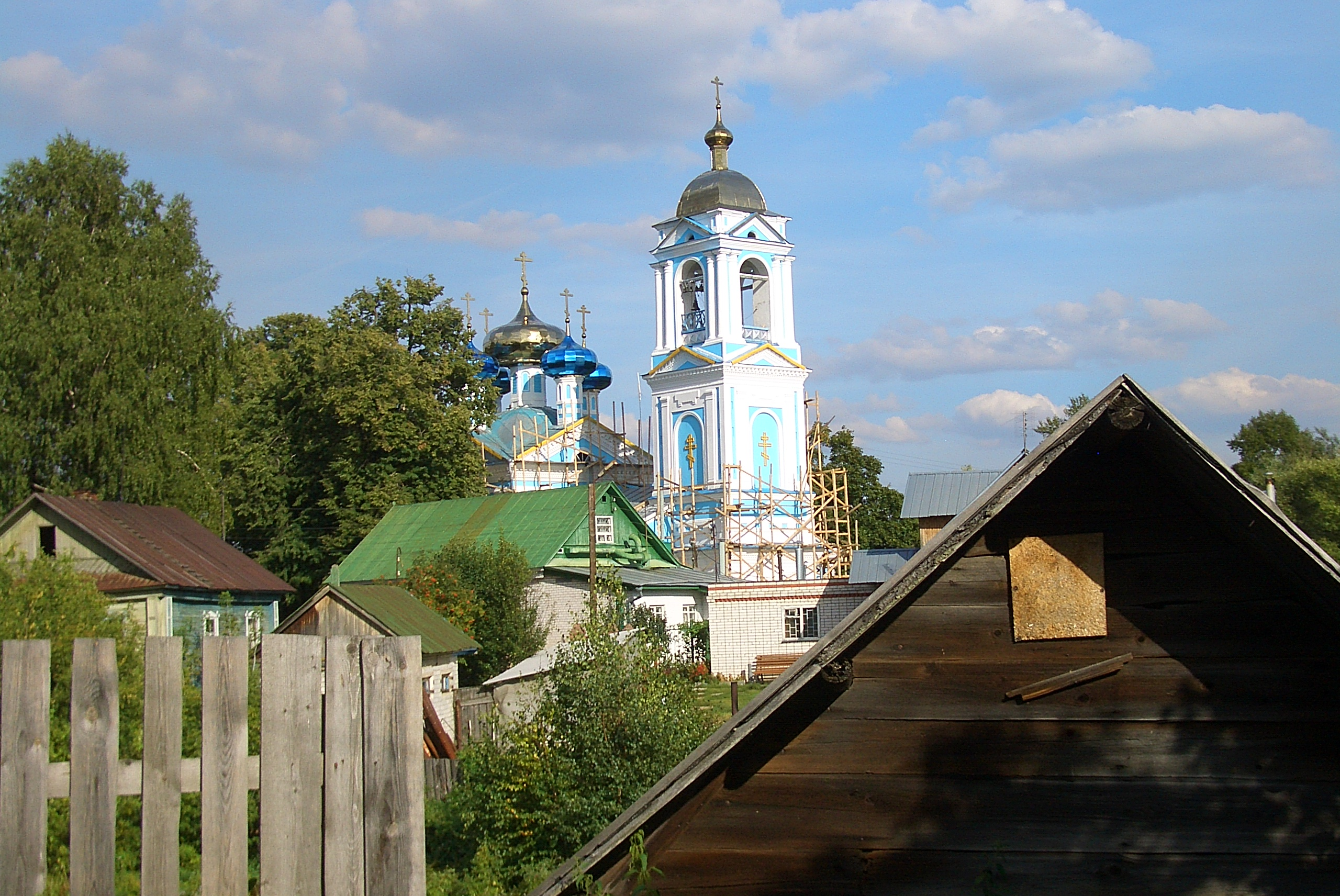 Church of Presentation of Jesus at the Temple. City of Balakhna, 1809